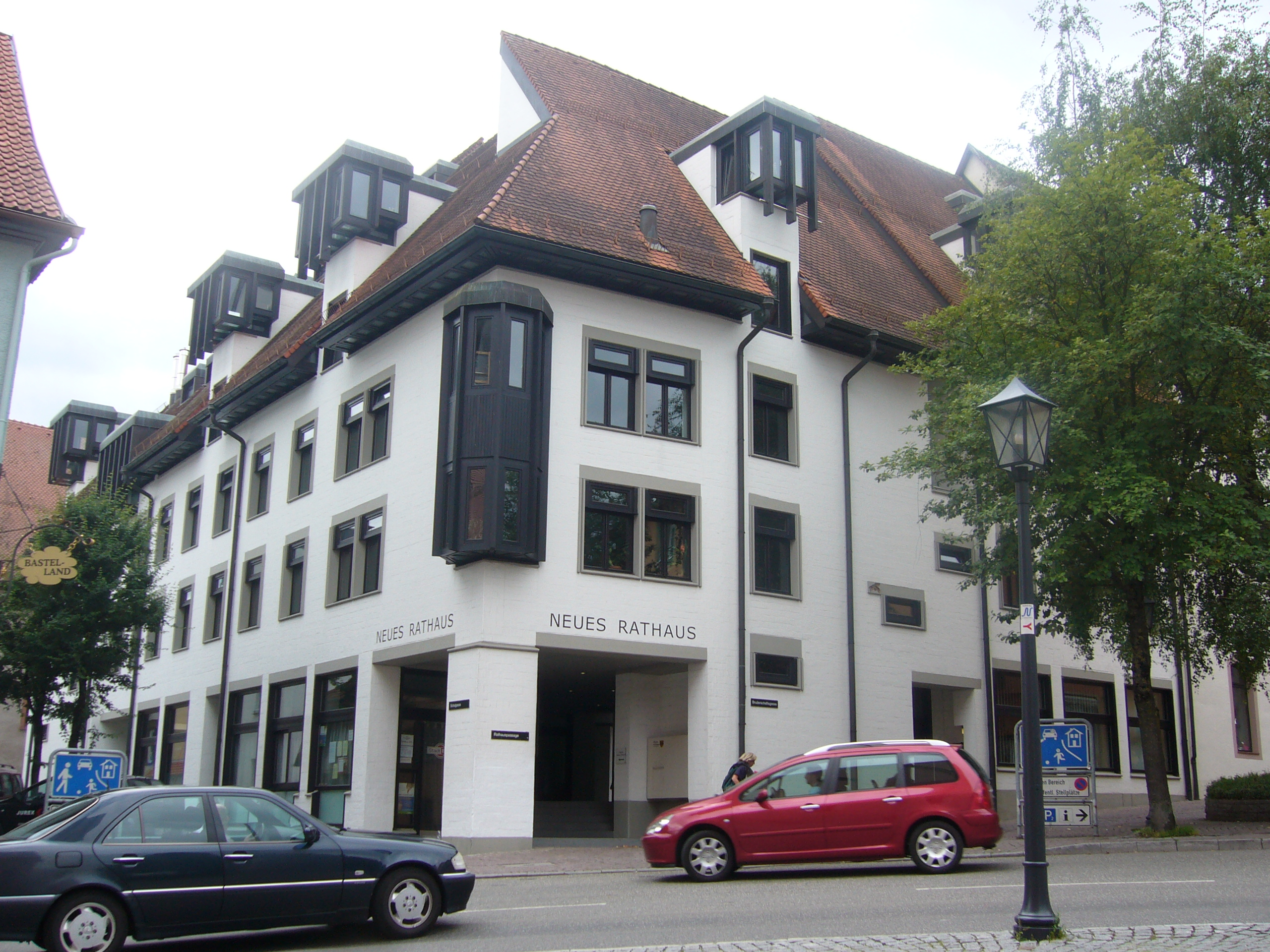 the new town hall of Rottweil, Germany